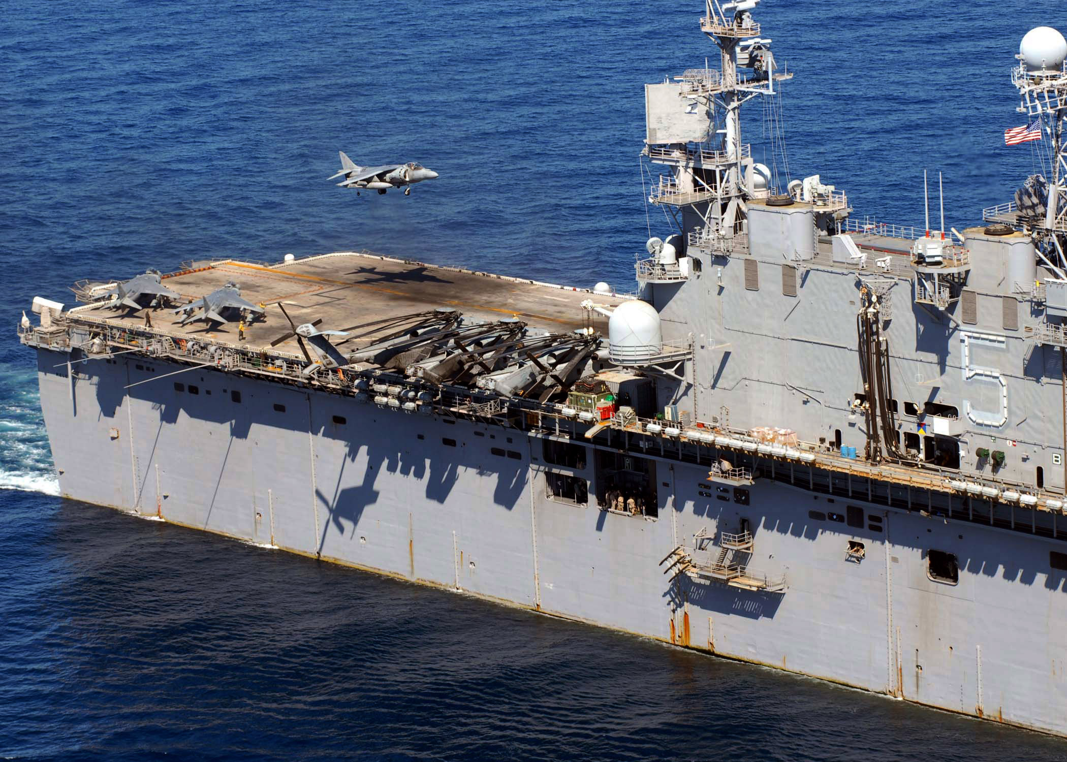 An AV-8B Harrier assigned to Marine Attack Squadron (VMA) 311 lands aboard the Tarawa-class amphibious assault ship USS Peleliu (LHA 5) as it steams through the South China Sea. Peleliu is the flaghsip of the Peleliu Expeditionary Strike Group and is on a scheduled deployment.